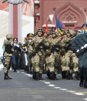 Парад Победы в Москве, посвященный 75-й годовщине Победы в Великой Отечественной войне